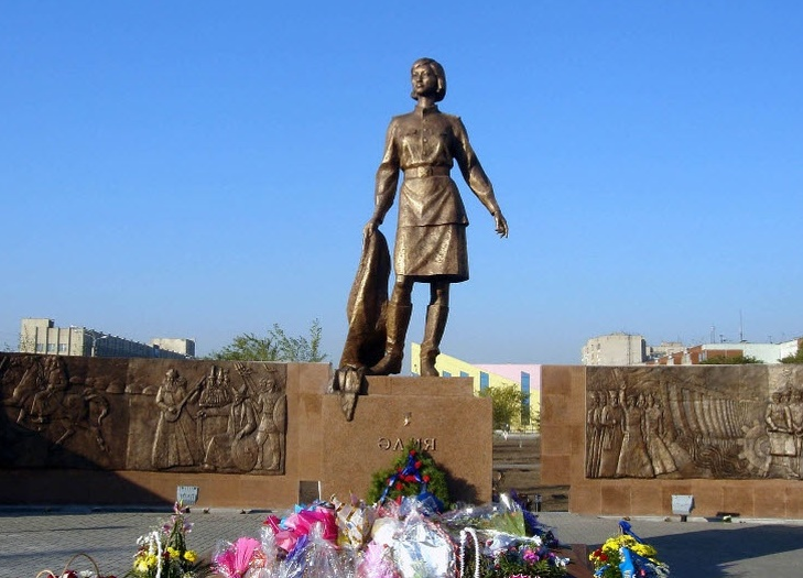 Әлия Молдағұлованың мемориалдық ескерткіш кешені